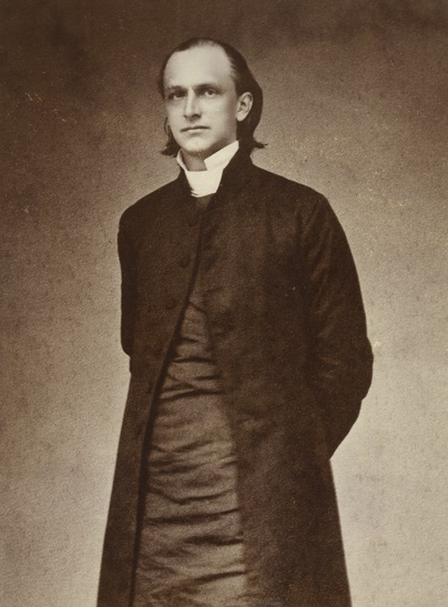 Photograph of Henry Benjamin Whipple published circa 1860 by J. Russell & Sons